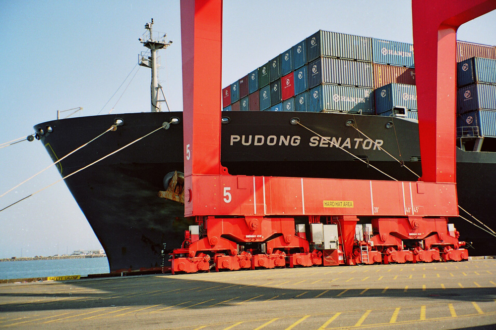 The "Pudong Senator" container ship of Reederei F. Laisz and Senator Lines. Picture by Henry Trotter, 2003.